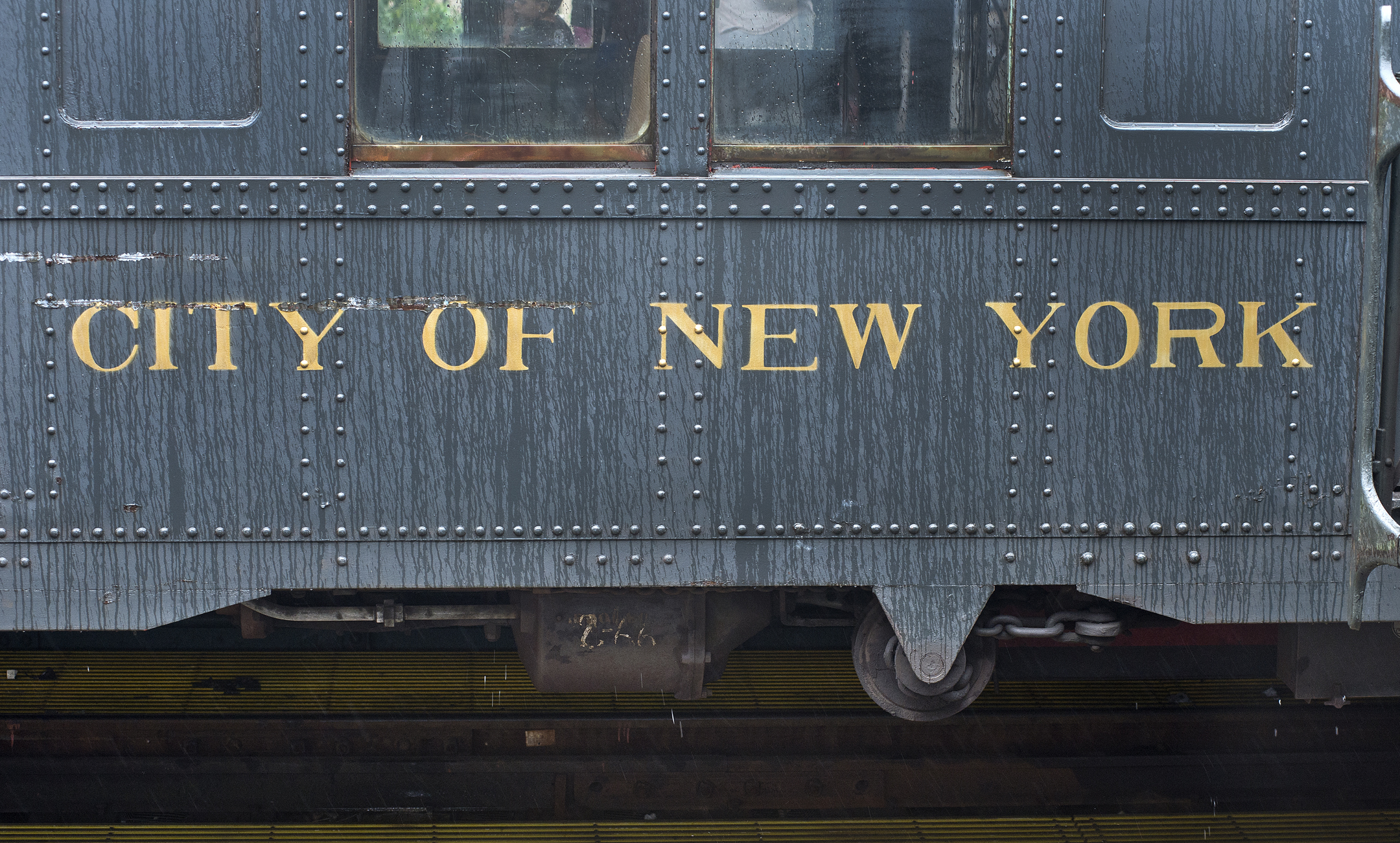 The MTA celebrated the centennial anniversary of the now-defunct Brooklyn-Manhattan Transit Corporation (BMT) with special nostaligia rides on Saturday, June 27 and Sunday, June 28, 2015. Four trains that were in service decades ago carried customers from the Brighton Beach Q station in Brooklyn on non-stop loops. Photo: Metropolitan Transportation Authority / Patrick Cashin